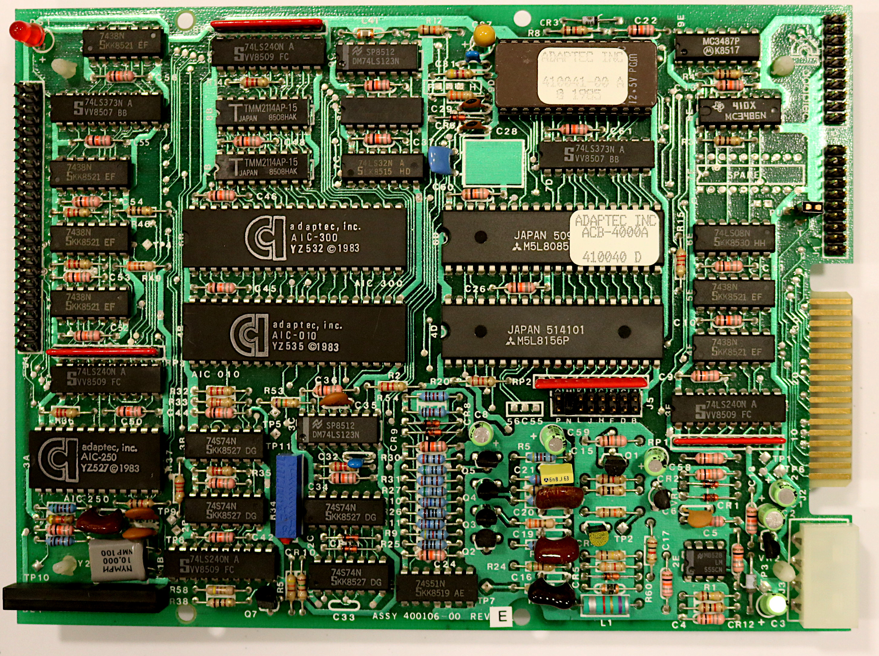 This is an Adaptec ACB-4000 SASI card connecting to MFM hard drives such as ST506/ST412. The card comes from an Luxor ABC1600 workstation computer. Note that this is not a Xebec product nor is the model number 1410-A.